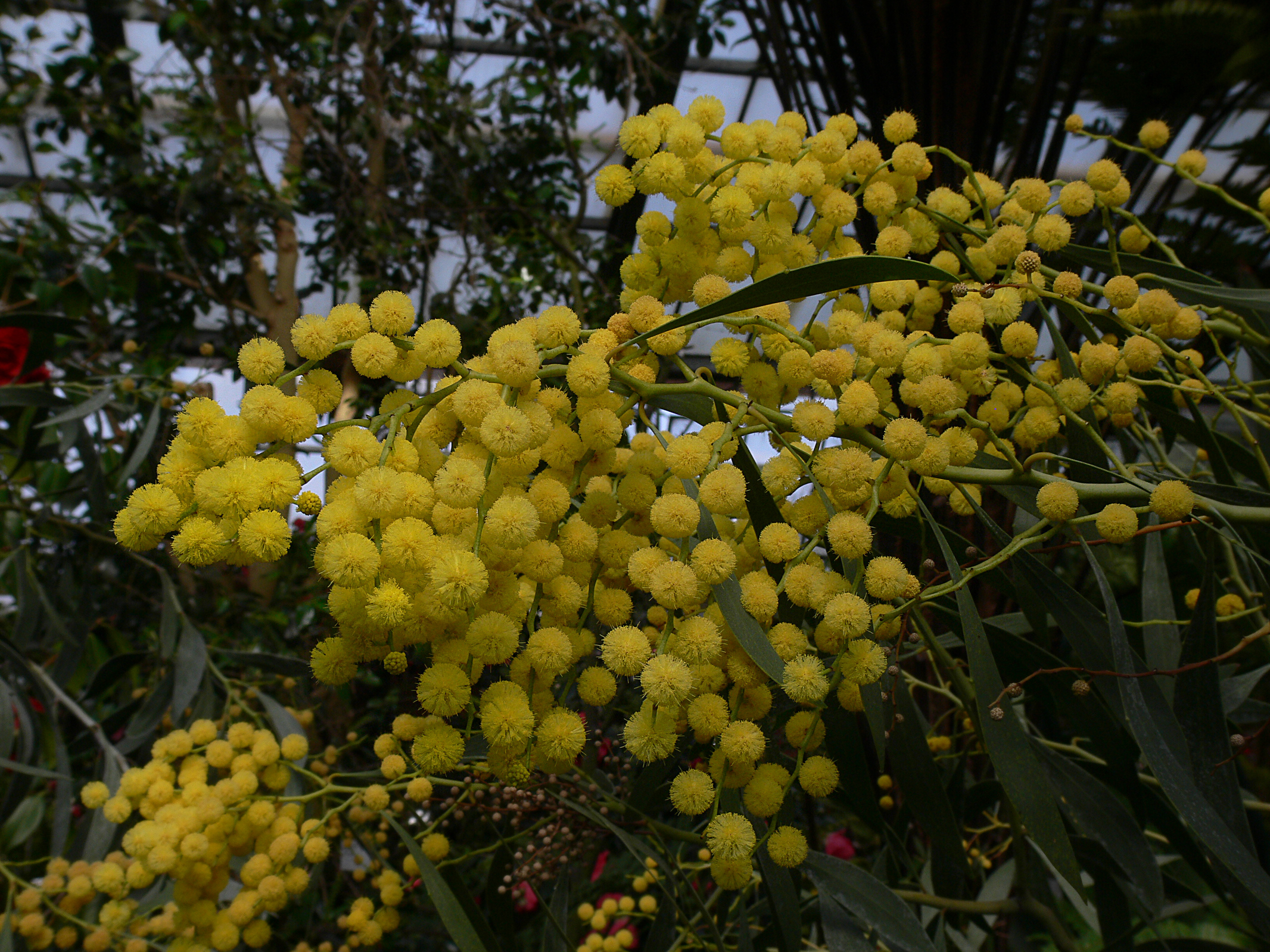 Acacia pycnantha, inflorescence